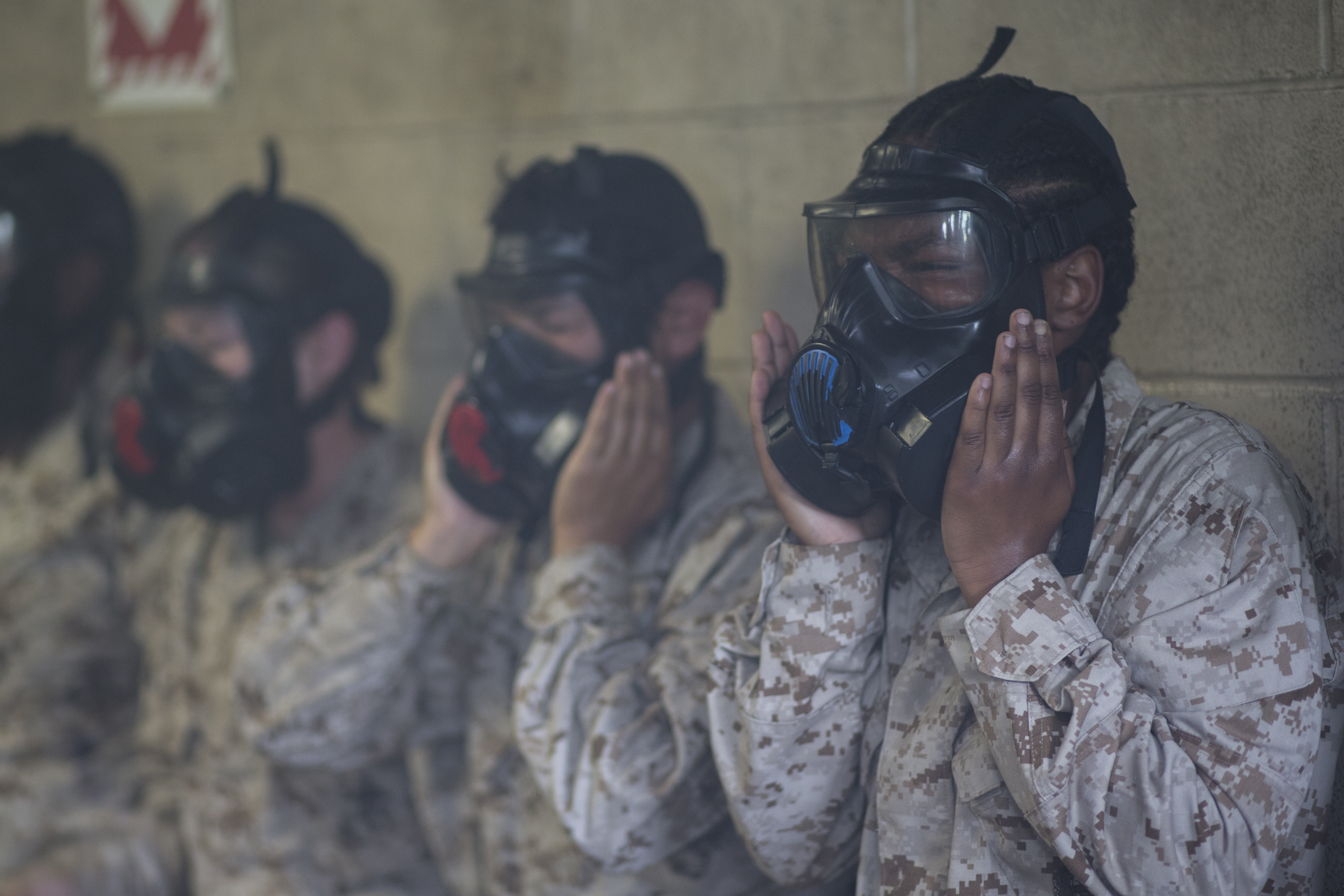 U.S. Marine Corps recruits with Papa Company, 4th Battalion, Recruit Training Regiment, clear their gas masks during the practical application portion of chemical biological, radiological and nuclear defense (CBRN) training on Parris Island, S.C. June 20, 2017. Training for CBRN defense is an event that teaches recruits how to prevent serious injury in the event of chemical warfare. (U.S. Marine Corps photo by Cpl. Richard Currier/Released) Unit: Marine Corps Recruit Depot, Parris Island - Combat Camera DVIDS Tags: USMC; recruit; Parris Island; Gas Chamber; Marines; Integrated Training; Combat Endurance Course